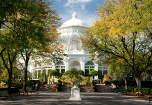 The Enid A. Haupt Conservatory at The New York Botanical Garden.